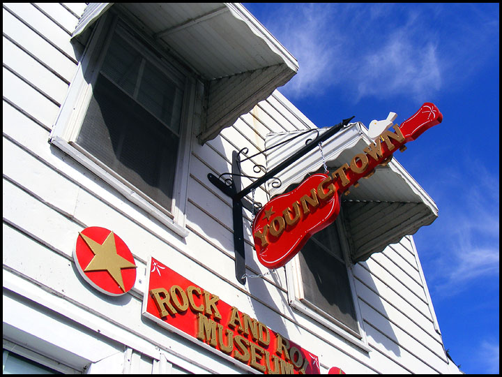 The Neil Young Museum, Omemee, Ontario, Canada, [foto by P.B.Toman]